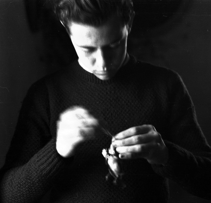 Naturalist Francisco Bernis Madrazo on an excursion to Cogolludo, Guadalajara, Spain (1930s).